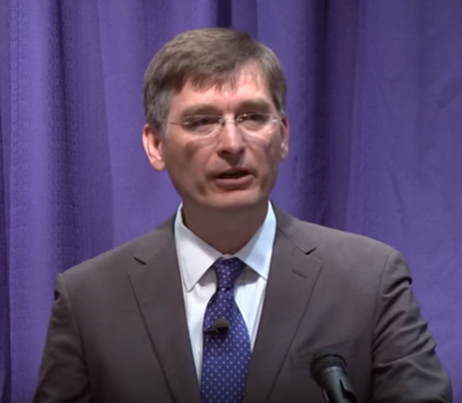 Jakub J. Grygiel delivering lecture